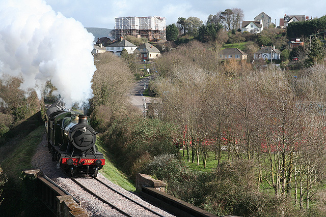 Watchet: West Somerset Railway A train climbs up from Watchet and heads for Washford, hauled by 2-8-0 freight locomotive 3850. It is about to cross the bridge over the old mineral line from the Brendon iron ore mines to Watchet harbour, now a public footpath. Trees on the right screen the paper mill site. The Quantock hills are just visible on the skyline, by the large building under scaffolding